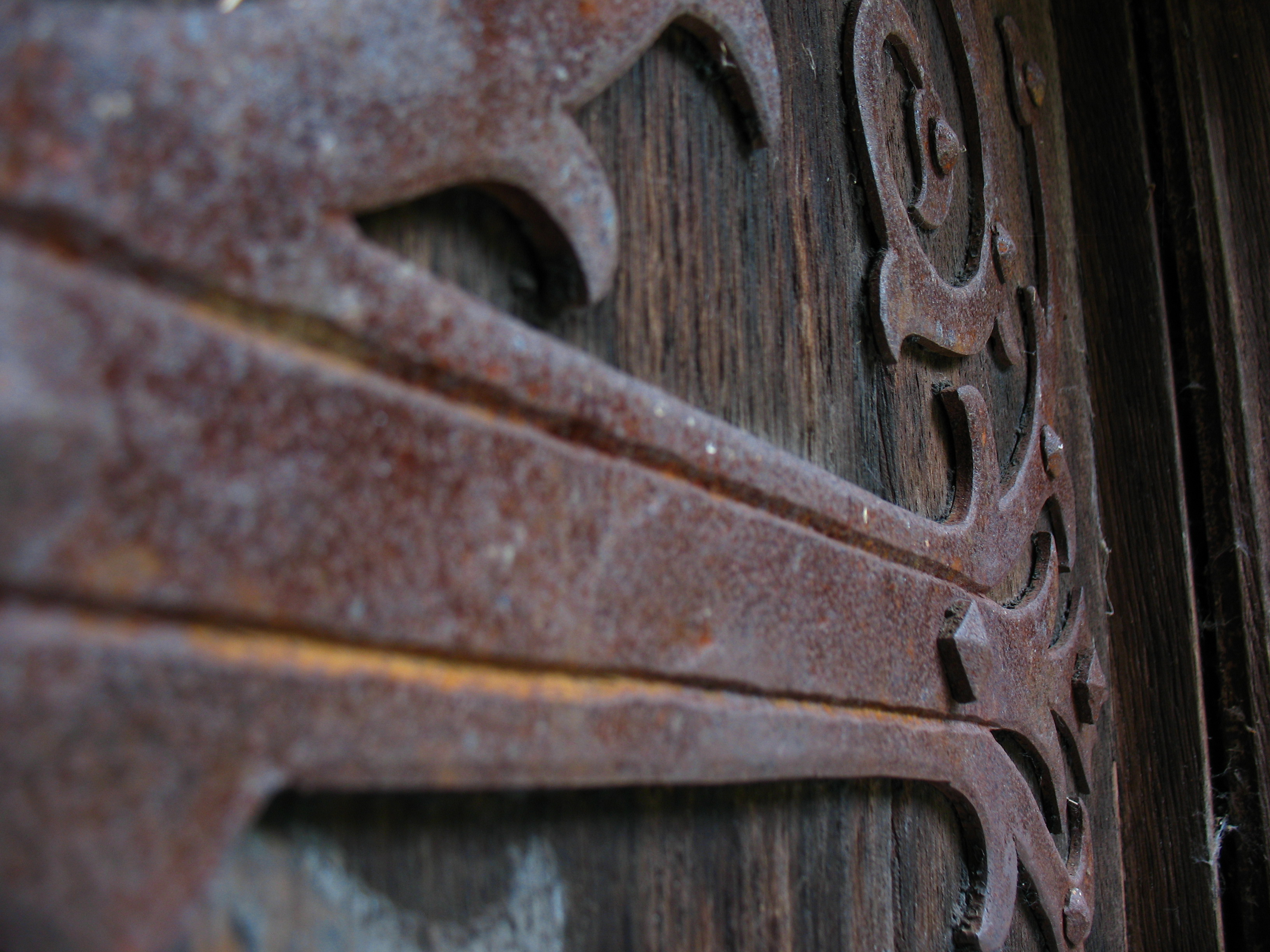 Door to the Island Chapel at Northwestern College, Minnesota.